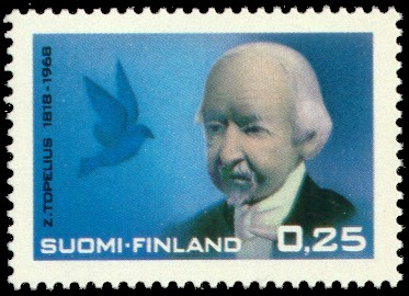 Postage stamp depicting the Finnish writer Z. Topelius, celebrating 150 years from his birth